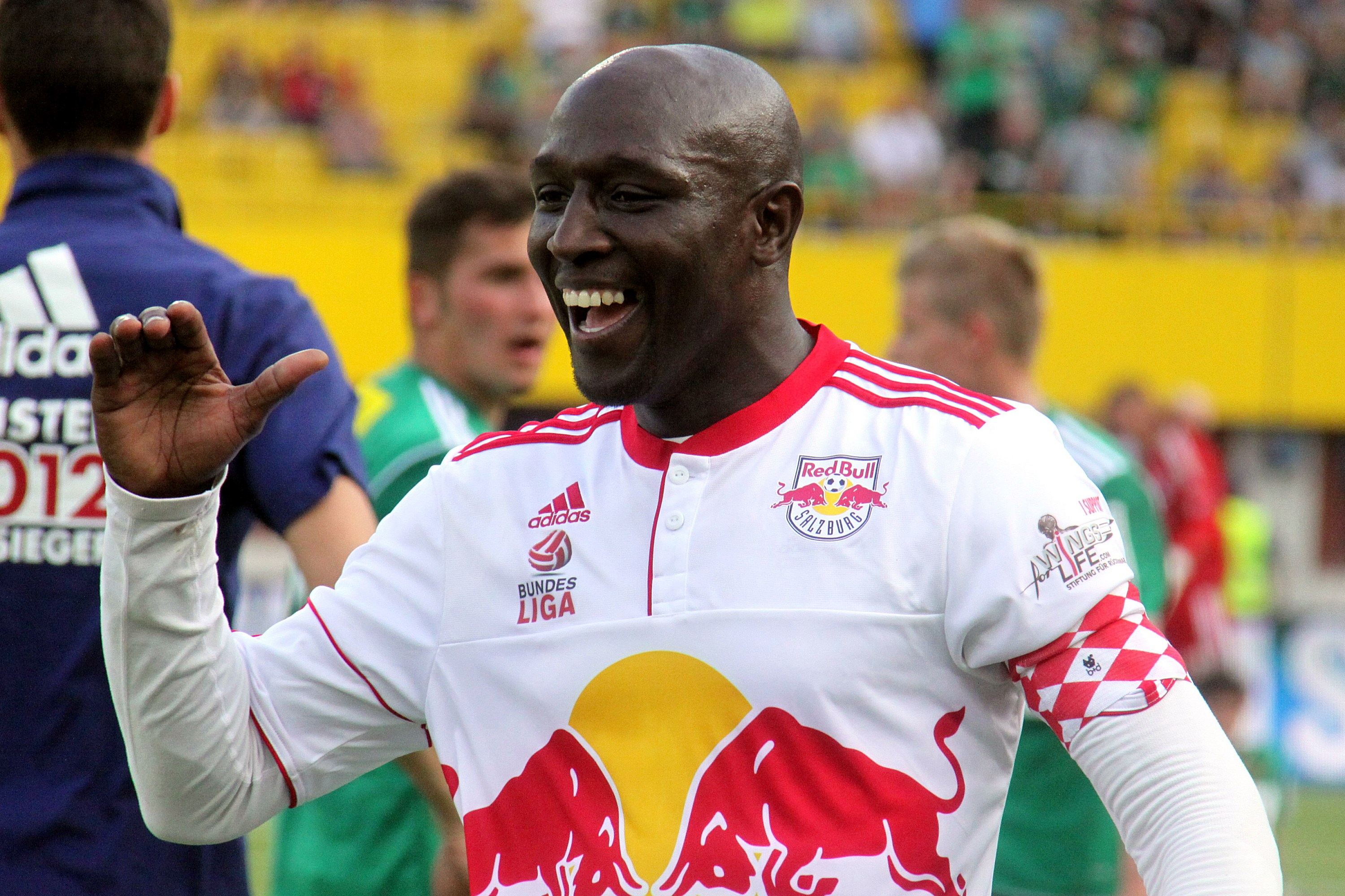 Final of the 2011–12 Austrian Cup FC Red Bull Salzburg vs. SV Ried at 2012-05-20 in the Ernst-Happel-Stadion, Vienna 3:0 (2:0). – The photo shows the captain of FC Red Bull Salzburg Ibrahim Sekagya. Object location48° 12′ 25.8″ N, 16° 25′ 15.42″ E